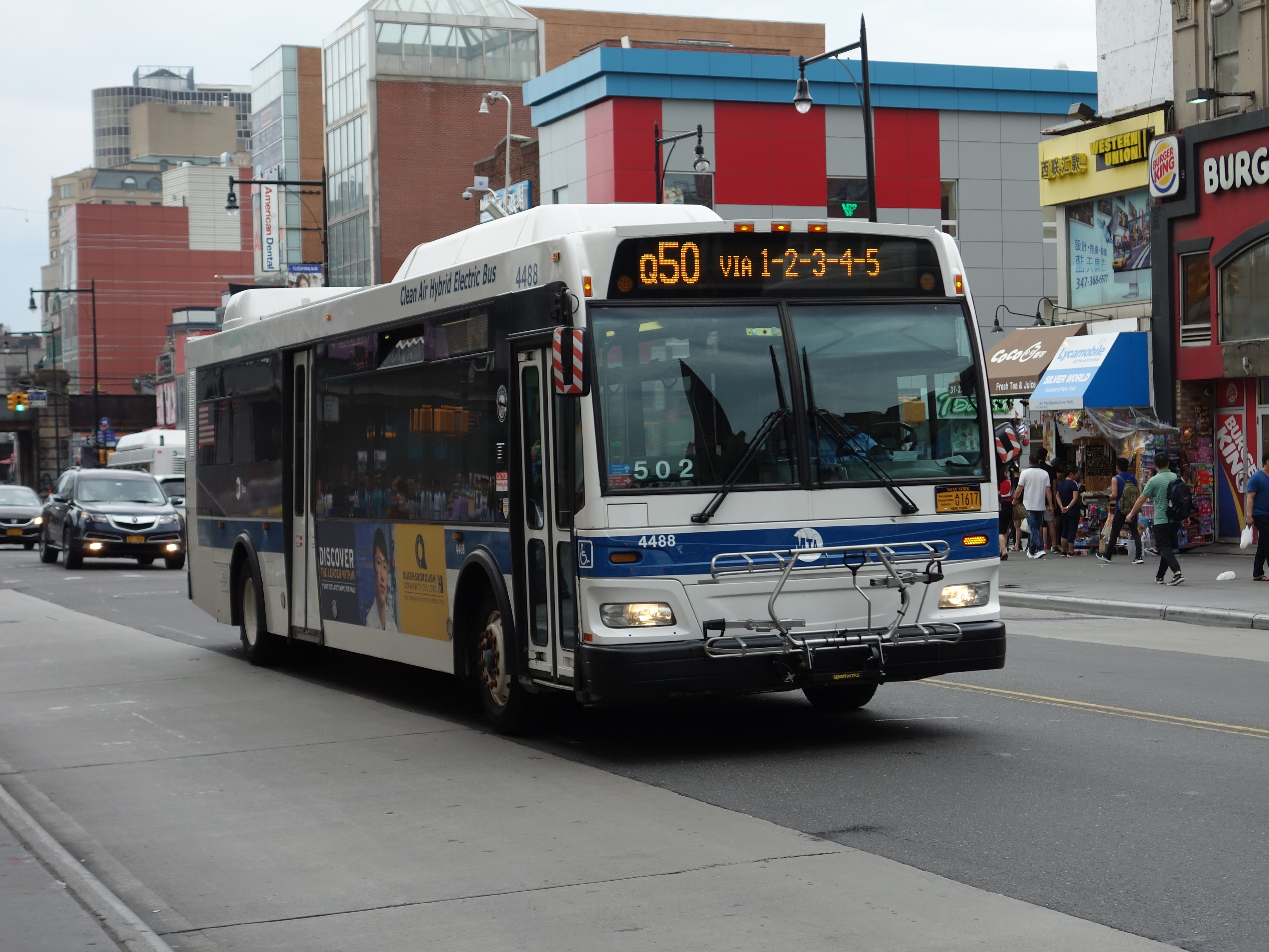 A Co-op City, Bronx-bound Q50 Limited bus traveling north on Main Street between Roosevelt Avenue and 39th Avenue in Downtown Flushing, Queens. The buses on the route (from the Eastchester Depot) have been fitted with bicycle racks to restore the bike-on-bus program over the Whitestone Bridge operated on the route (then the QBx1) until 2005 when it was still a Queens Surface / NYCDOT route. It is odd to see bike racks on a bus in New York City.